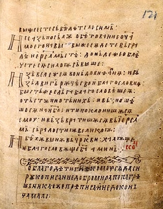 Dobromir Gospel (Tetraevangelion), 12th cent., Middle Bulgarian manuscript, fol. 121, National Library of Russia